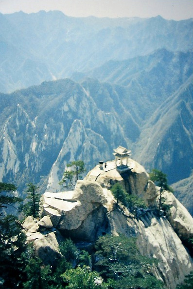 Mount Hua in West China, the Chess Pavilion